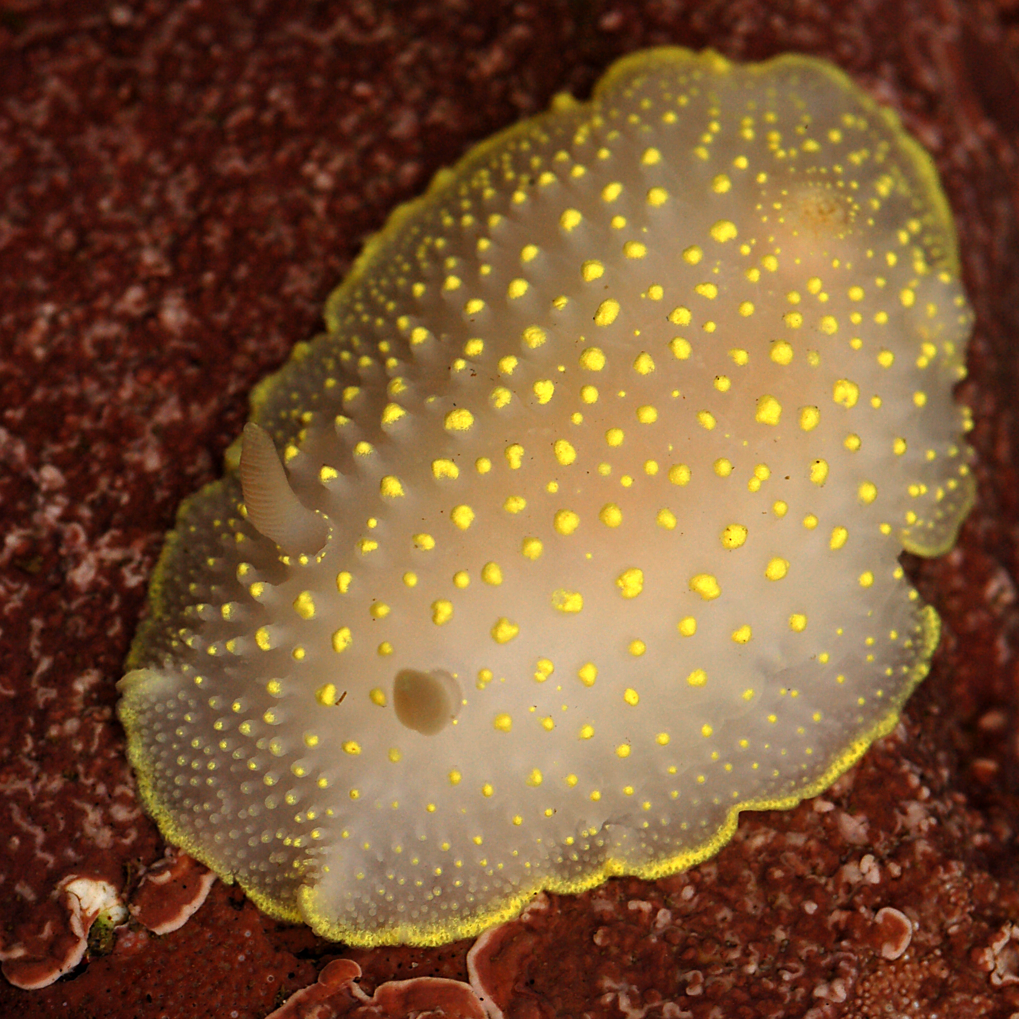 Cadlina luteomarginatayellow-edged cadlina